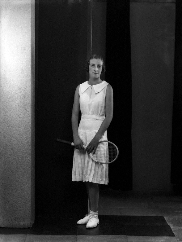 Australian tennis player Joan Bathurst Hartigan by Bassano, whole-plate film negative, 27 May 1935